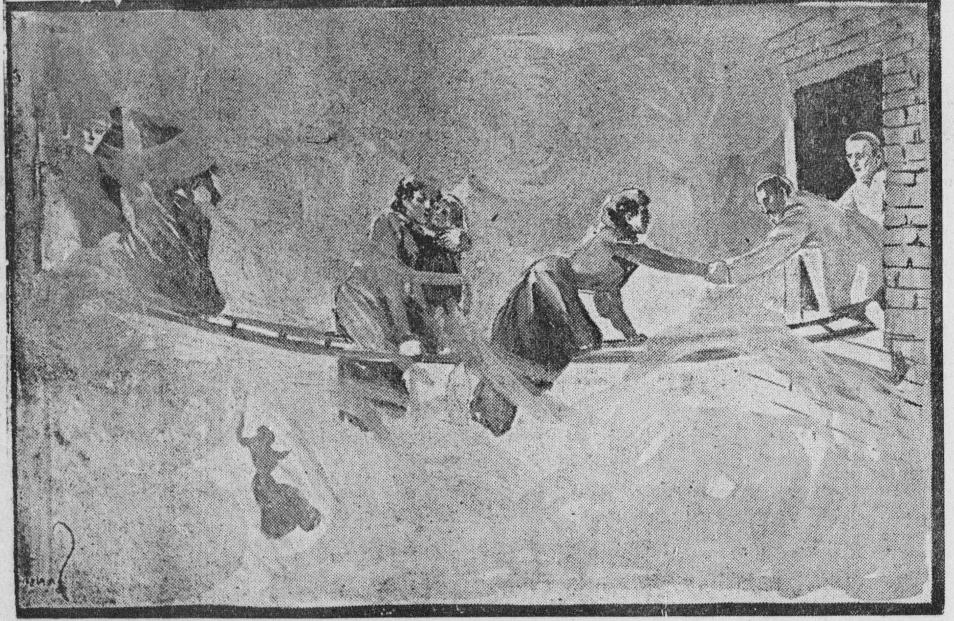 During the Iroquois Theatre fire of 1904, students and workers at nearby Northwestern University extended ladders and boards across the alley between the university and the theater, enabling some theatergoers to crawl across to safety. Note that, as indicated by the mirror-reversed signature of artist Charles N. Landon, the Tacoma Times published this image in reverse.